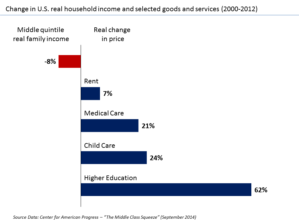 The chart shows how real (i.e., inflation adjusted) median wages for the middle class family have fallen, while the real costs of goods and services have risen.